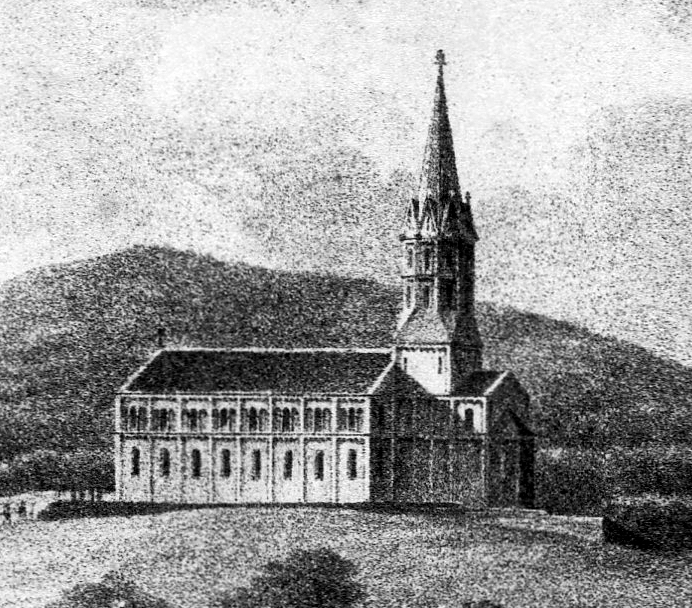 Engraving of St Mark's Church, Witton